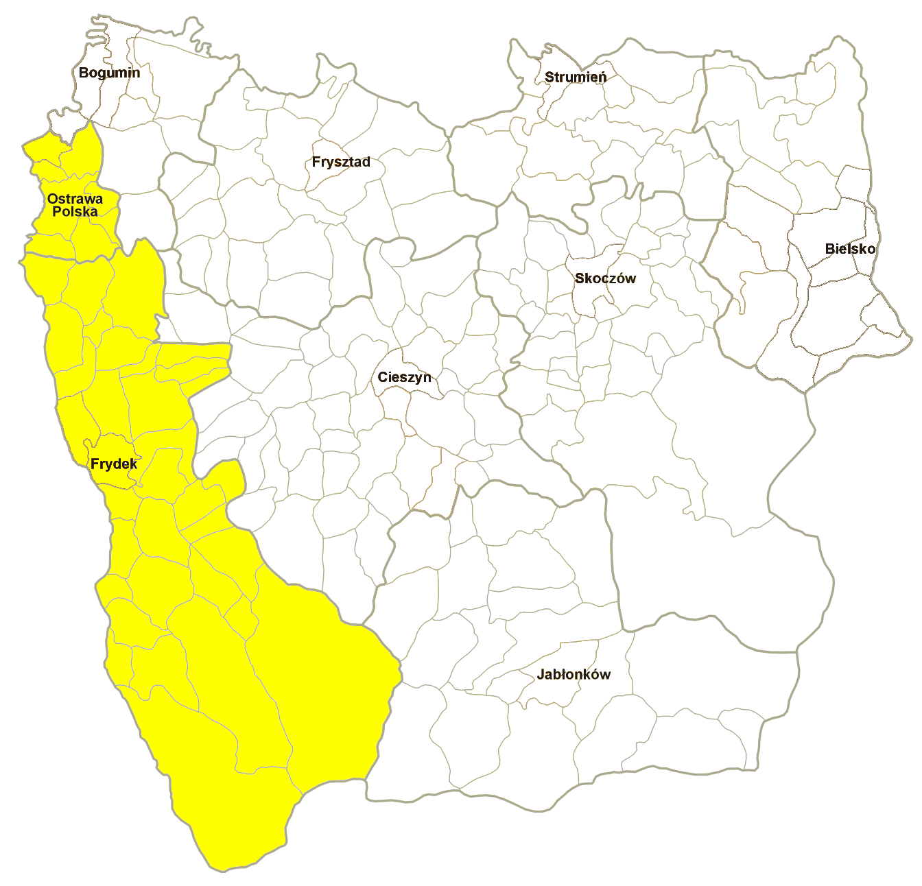 Friedek Political County in 1910 in eastern part of Austrian Silesia (Cieszyn Silesia)